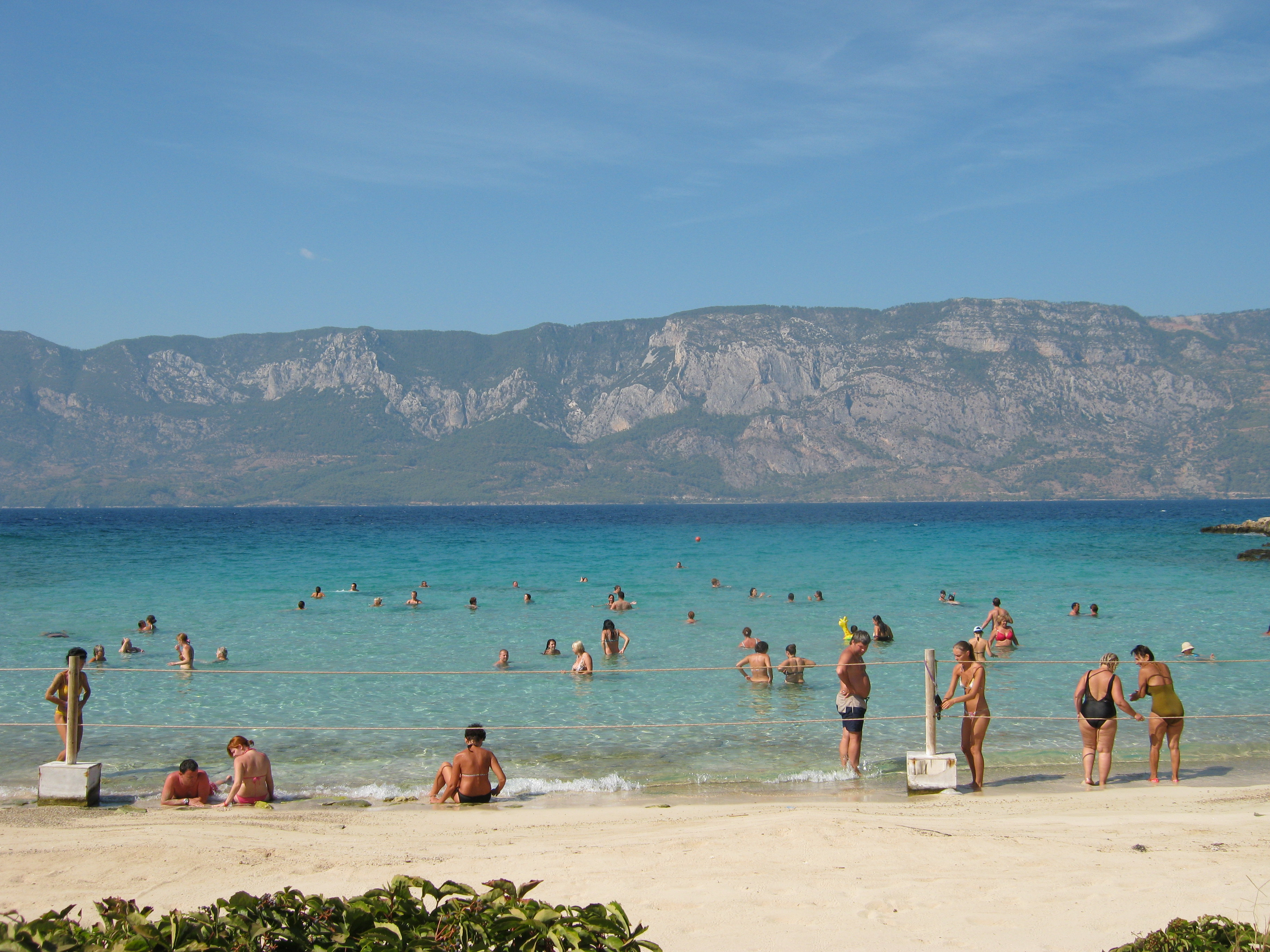 Gulf of Gökova - Cleopatra's beach